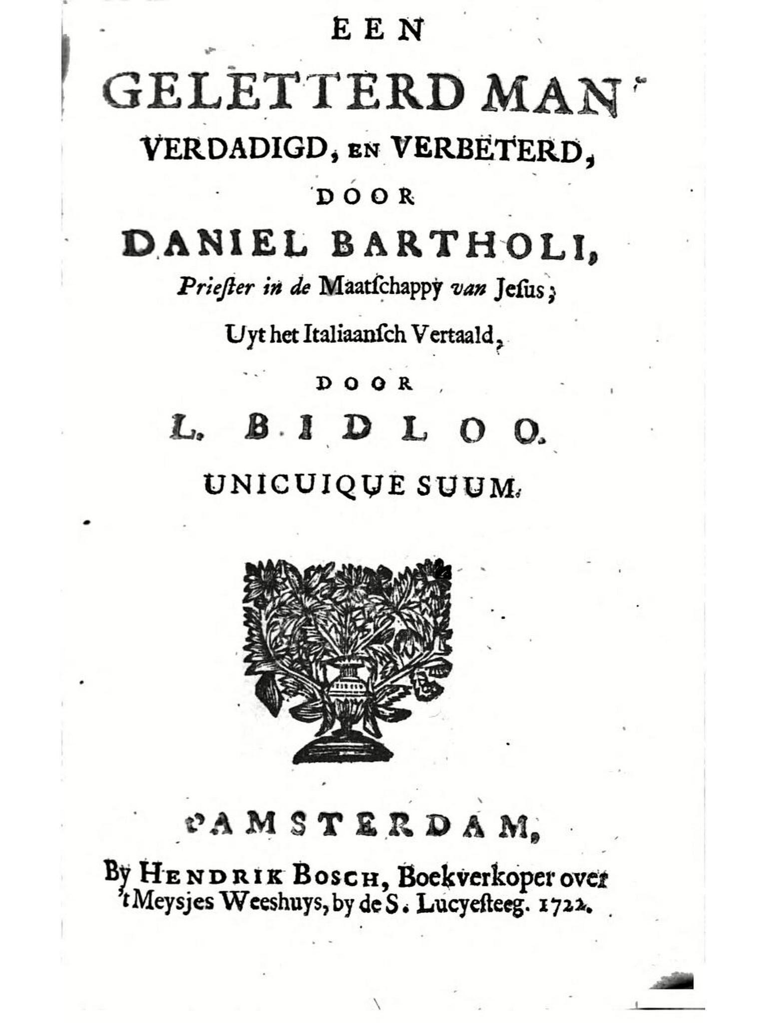 Dutch translation of Daniello Bartoli's Huomo di lettere by Lambert Bidloo